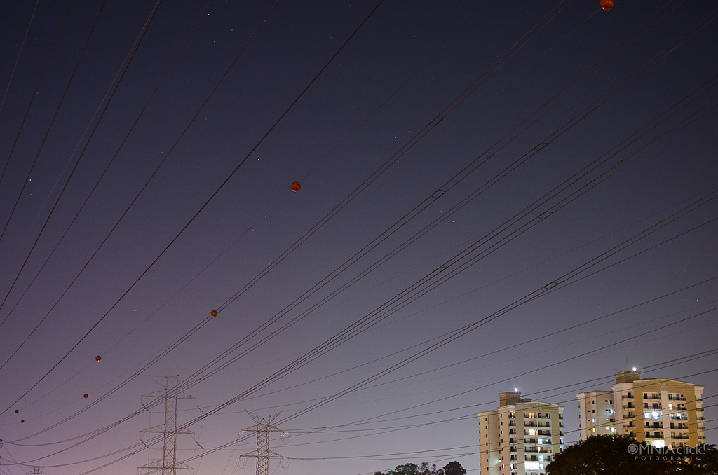 Threads of energy and communication in São José dos Campos, São Paulo, Brazil.